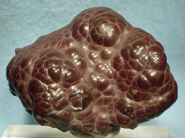 Hematite Locality: Egremont, West Cumberland Iron Field, North and Western Region (Cumberland), Cumbria, England, UK (Locality at ) Size: 7.2 x 5.5 x 5.3 cm. A CLASSIC, OLD-TIME and showy specimen of lustrous, chocolate-brown, botryoidal hematite "kidney ore" from the famed and long-closed iron mines at Egremont, England.